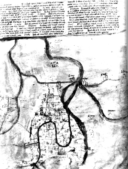 The earliest map of Venice, Italy, from a codex of 1380.